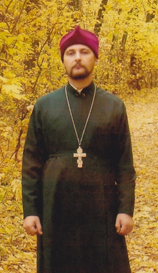 Preotul satului